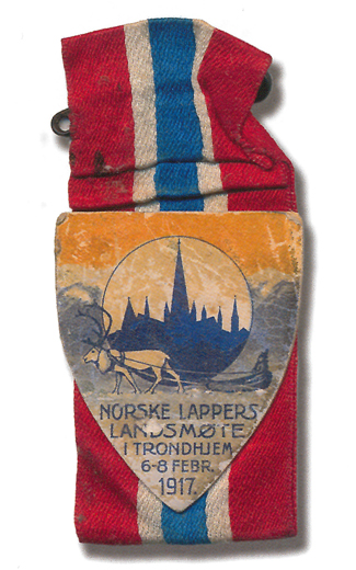 A medal given to the ca 150 participants at the First Sami congress in Trondheim, 1917